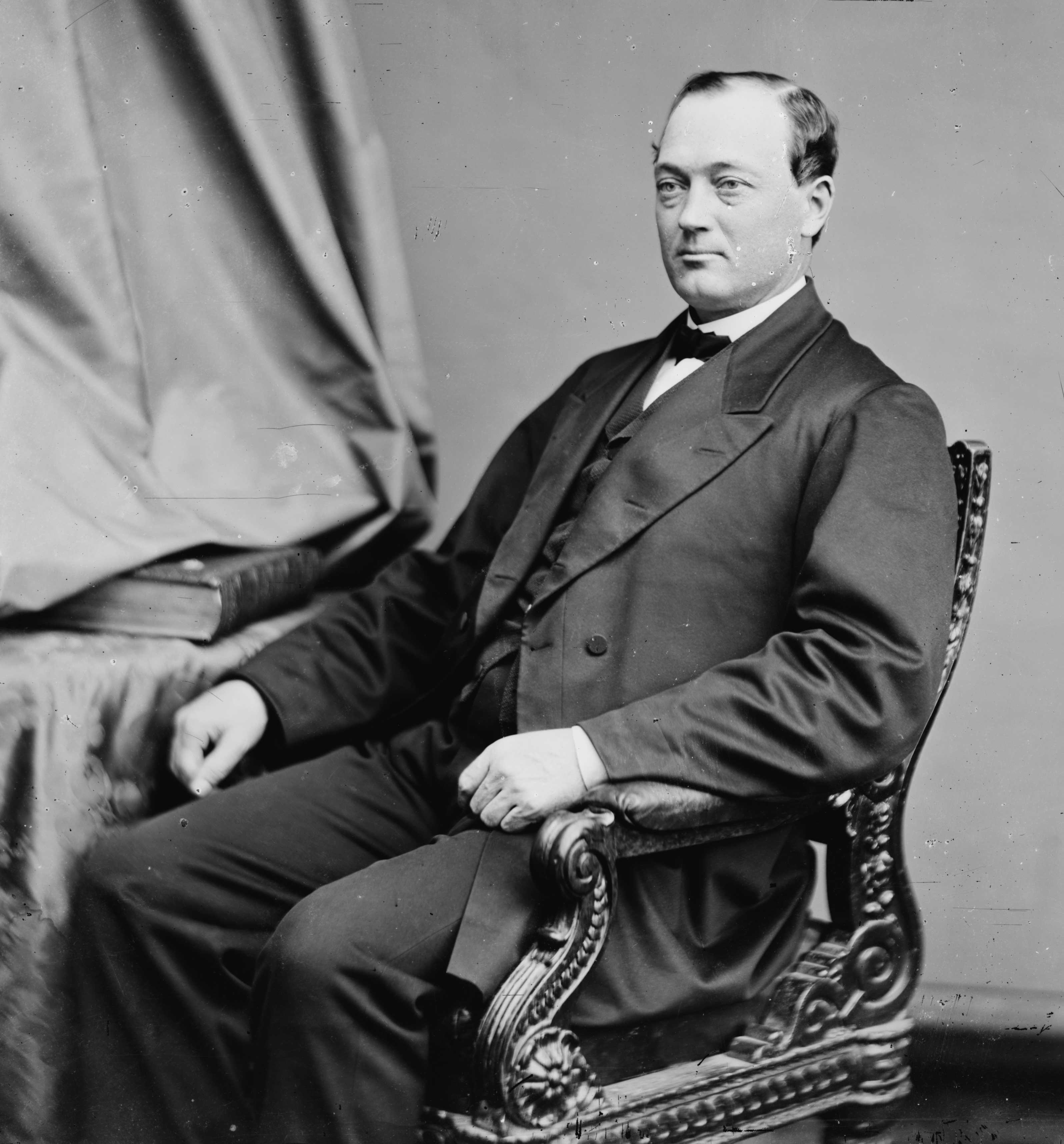 George W. McCrary, former Secretary of War.